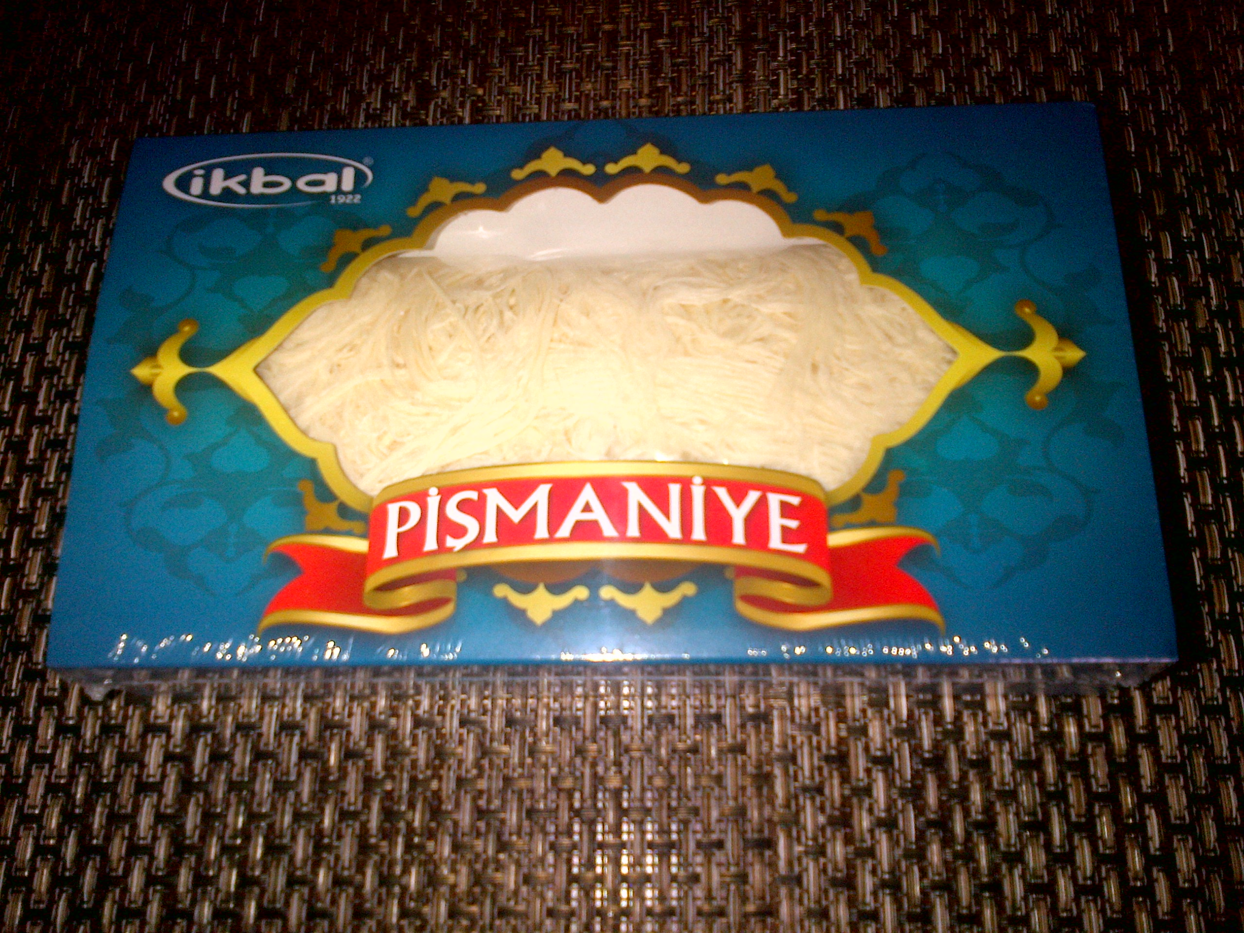 Pişmaniye from Turkey in its classical carton box.